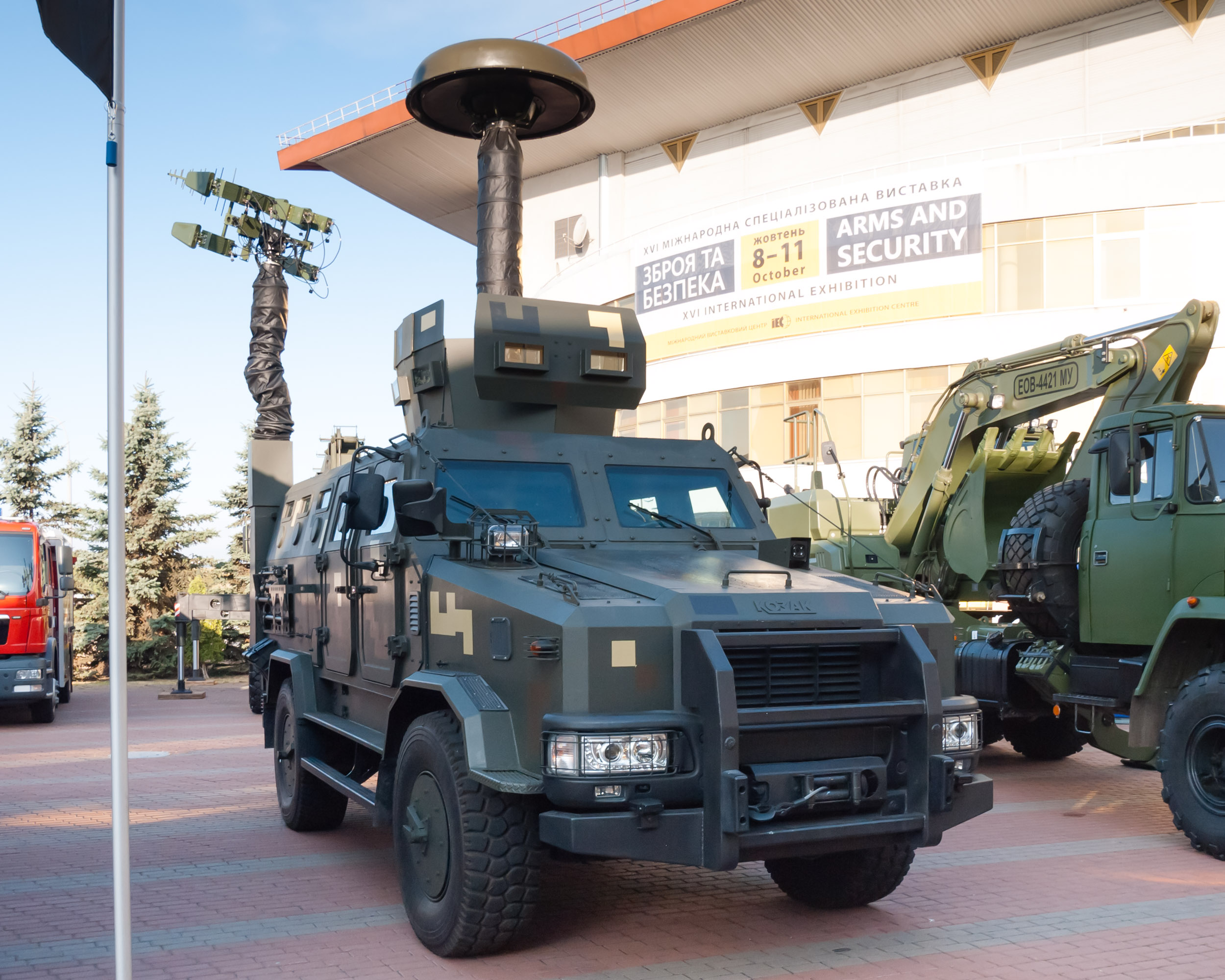 Nota electronic warfare complex (by Tritel) on Kozak-2 armored vehicle (by Practika). 'Zbroya ta Bezpeka' military fair, Kyiv, Ukraine, 2019